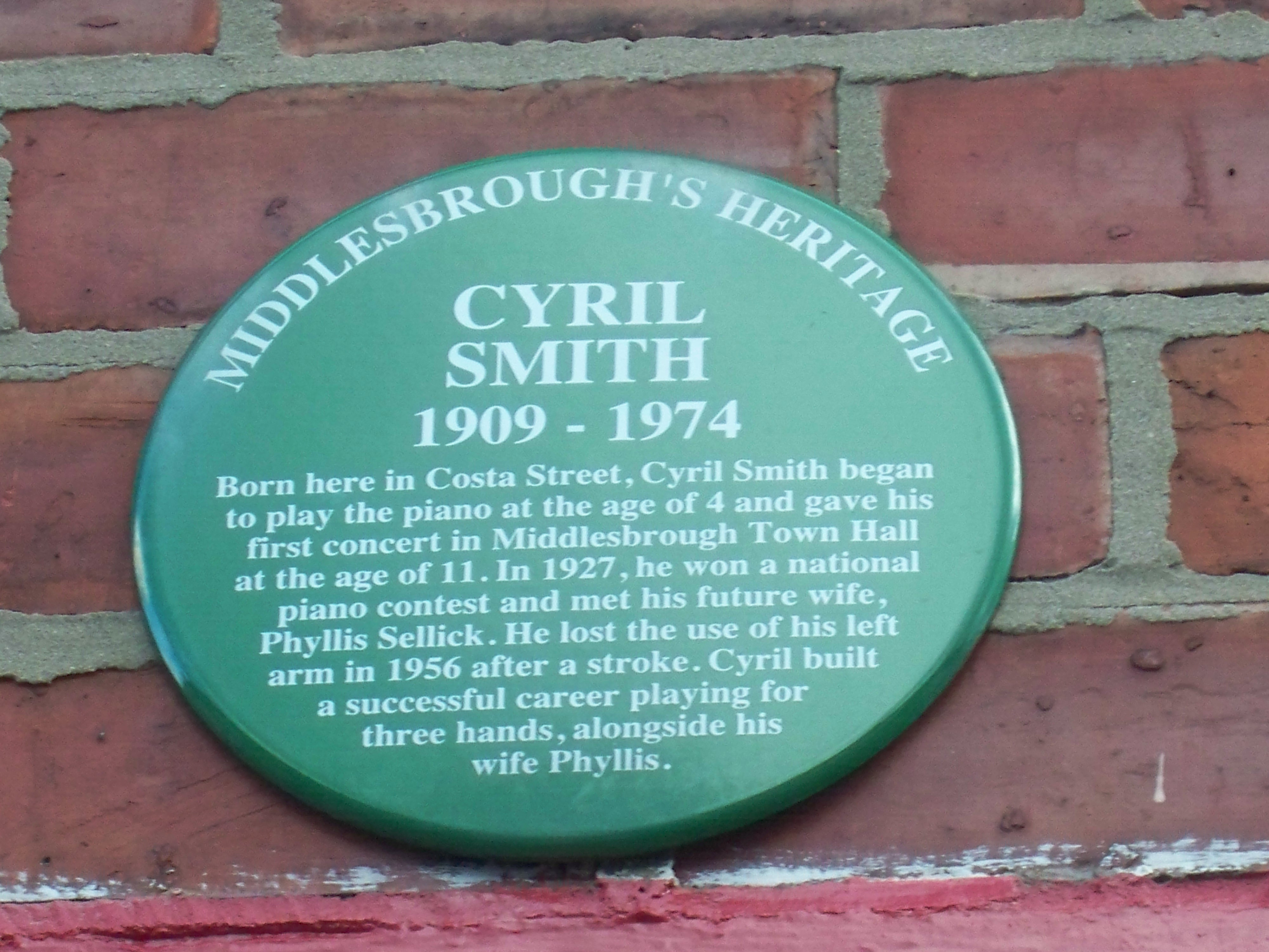 Cyril Smith 1909-1974 Born here in Costa Street, Cyril Smith began to play the piano at the age of 4 and gave his first concert in Middlesbrough Town Hall at the age of 11. in 1927, he won a national piano contest and met his future wife, Phyllis Sellick. He lost the use of his left arm in 1956 after a stroke. Cyril built a successful career playing for three hands, alongside his wife Phyllis.